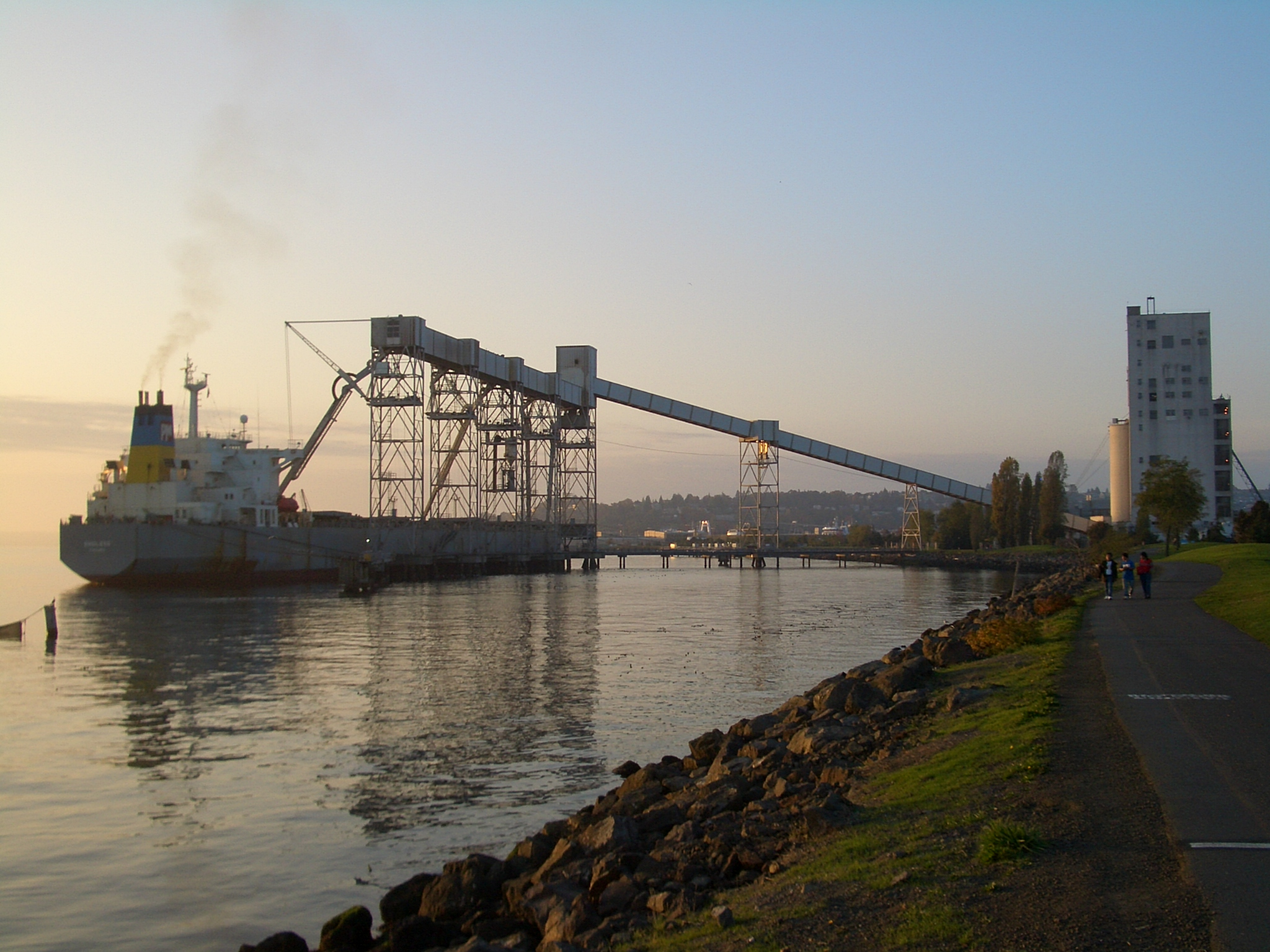 Grain terminal in Smith Cove, Seattle